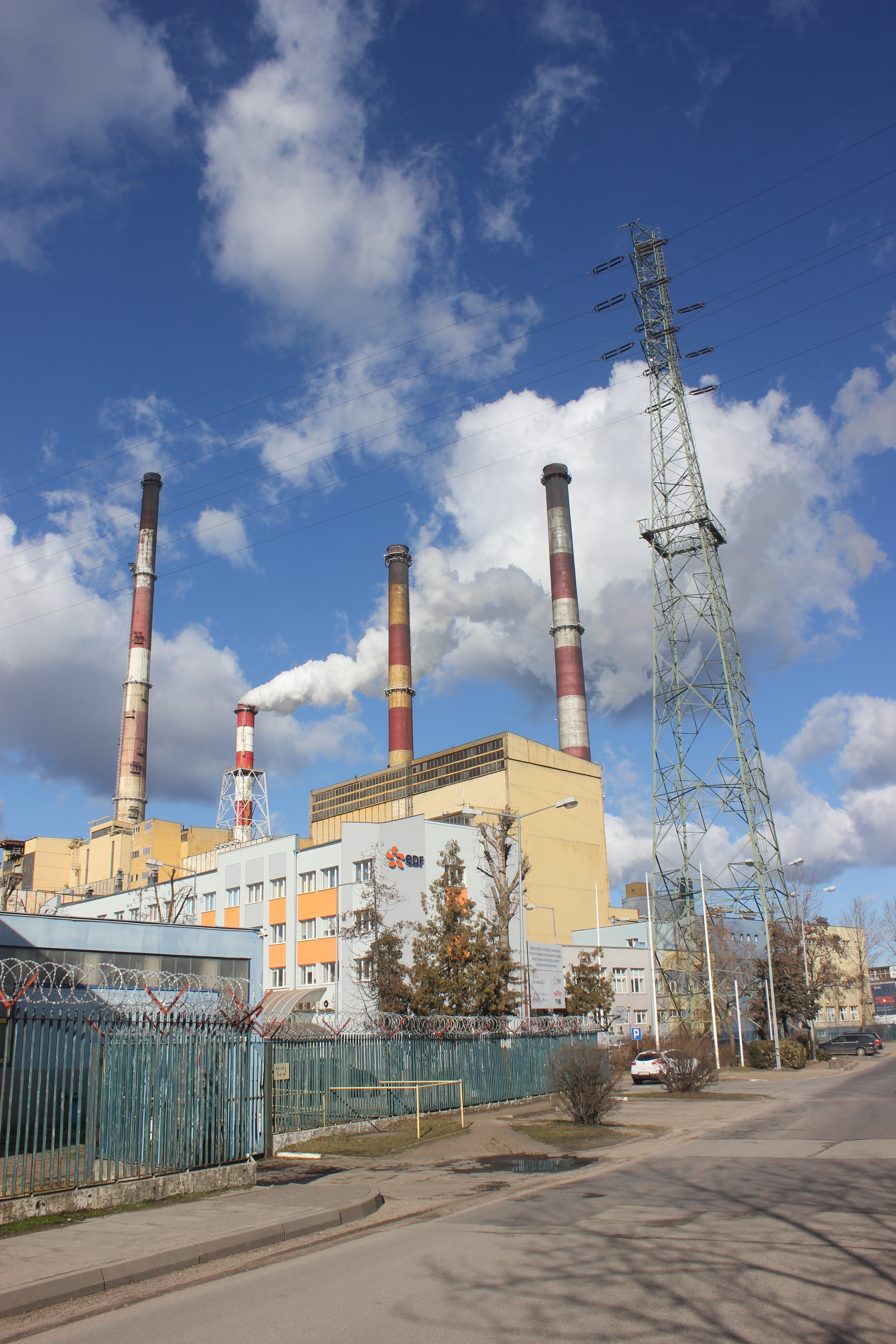 Gdańsk - heat and power plant EC2